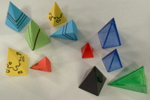 Picture of Icehouse pieces, left side pieces are from a hand-decorated paper "Origami" set, the right side are plastic "nesting" pieces. Both published by Looney Labs. From the collection of the photographer, Inky